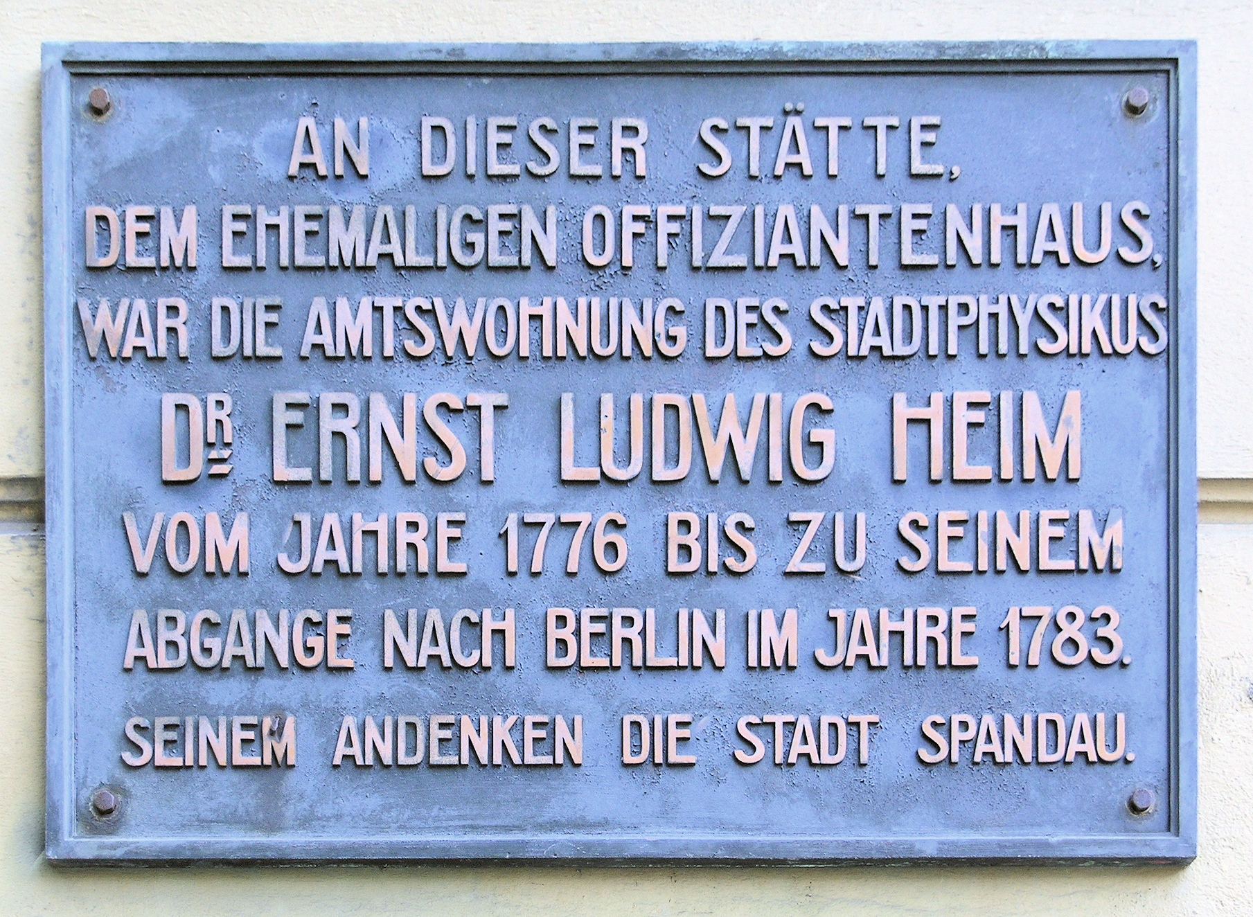 Memorial plaque, Ernst Ludwig Heim, Reformationsplatz 2, Berlin-Spandau, Germany